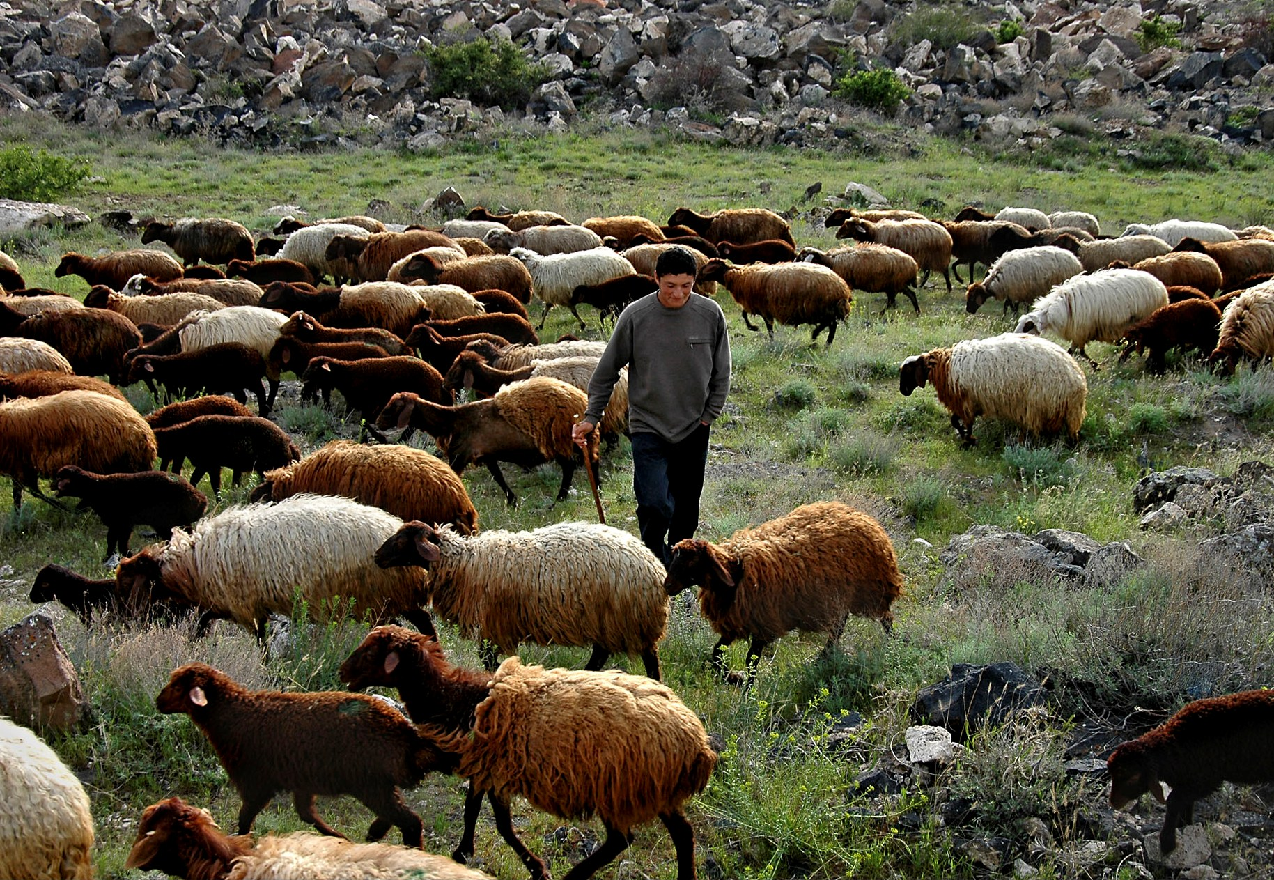 Sheep grazing.